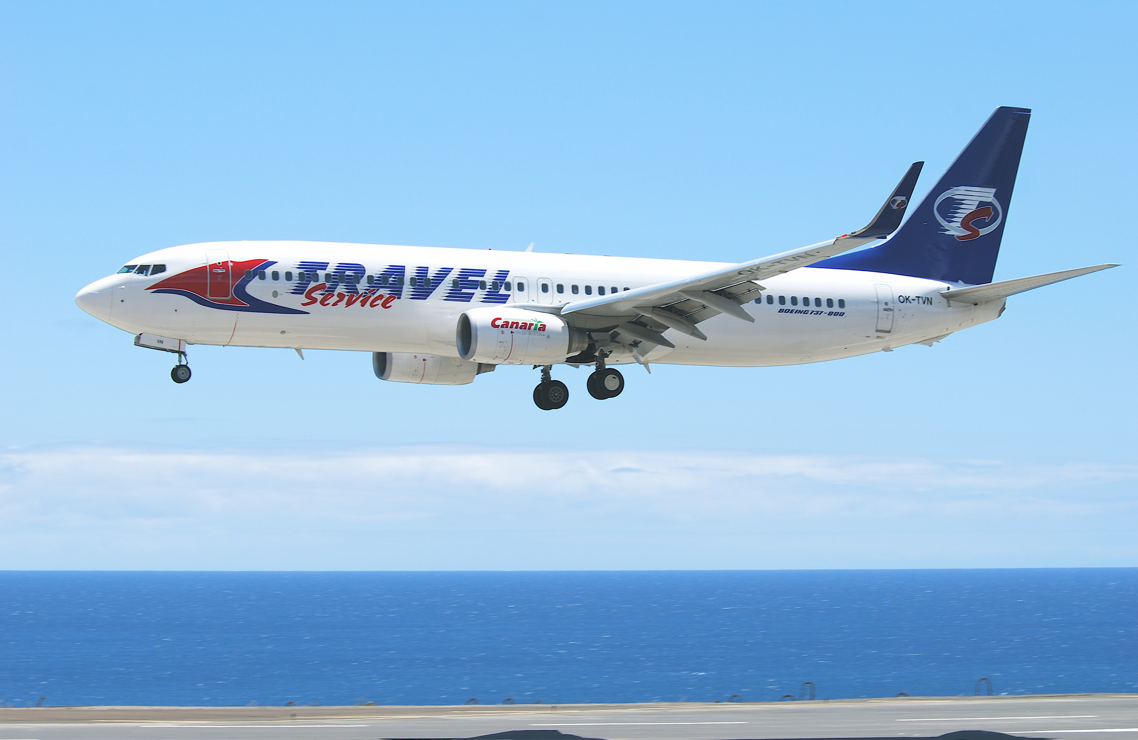 Travel Service Boeing 737-8BK; OK-TVN@FNC;12.07.2011/607am